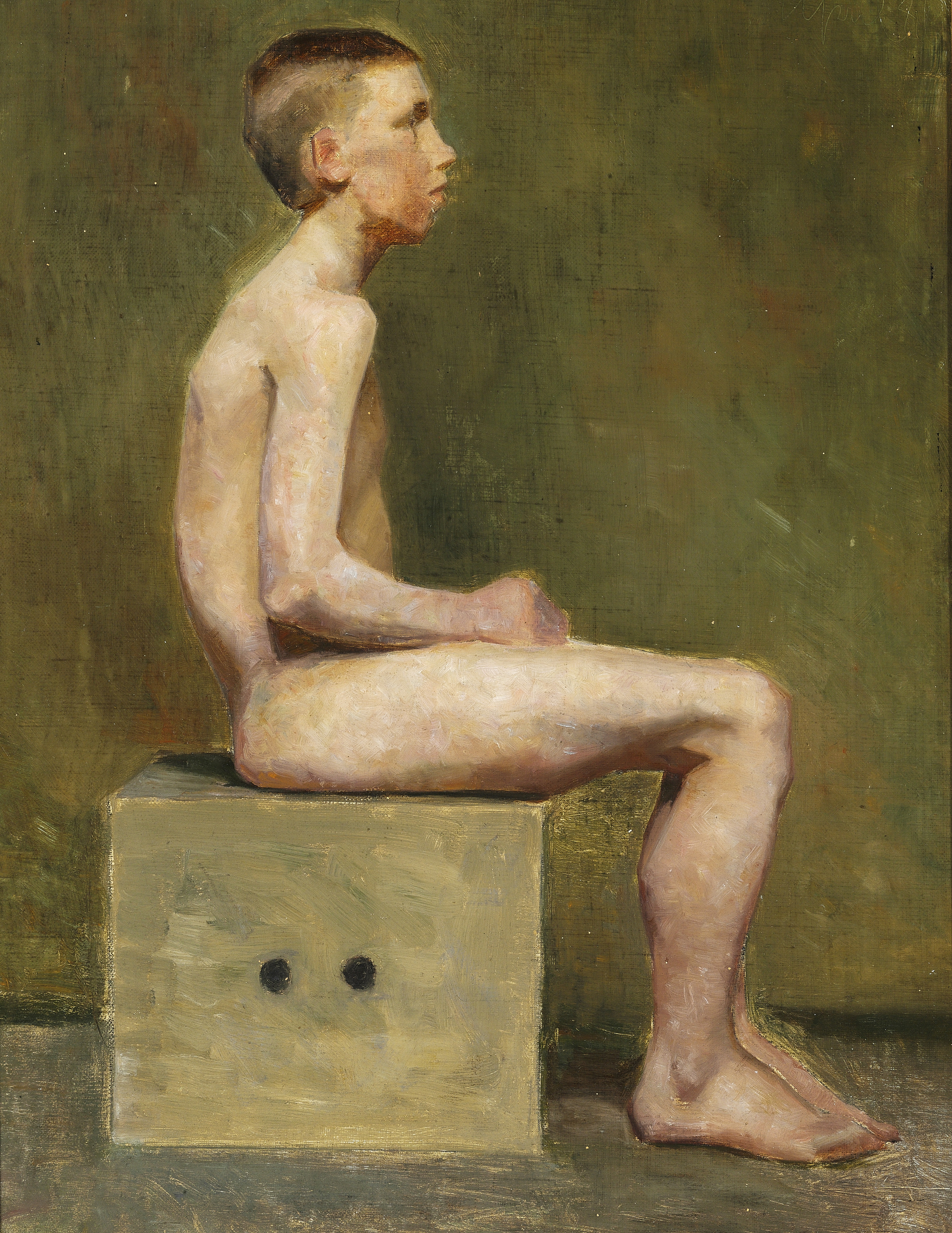 Boy seated on a box. Unsigned. Dated April 87. Oil on canvas. 49 × 38 cm. Painted at “Atelierskolen” for women in Copenhagen, where Marie Krøyer studied in 1886–87, before she went to Paris. Literature: Tonni Arnold, Kunsten i Marie Krøyers liv, 2002, reproduced p. 12. Purchased by Skagens Kunstmuseum in November 2016 for 35,000 kr.